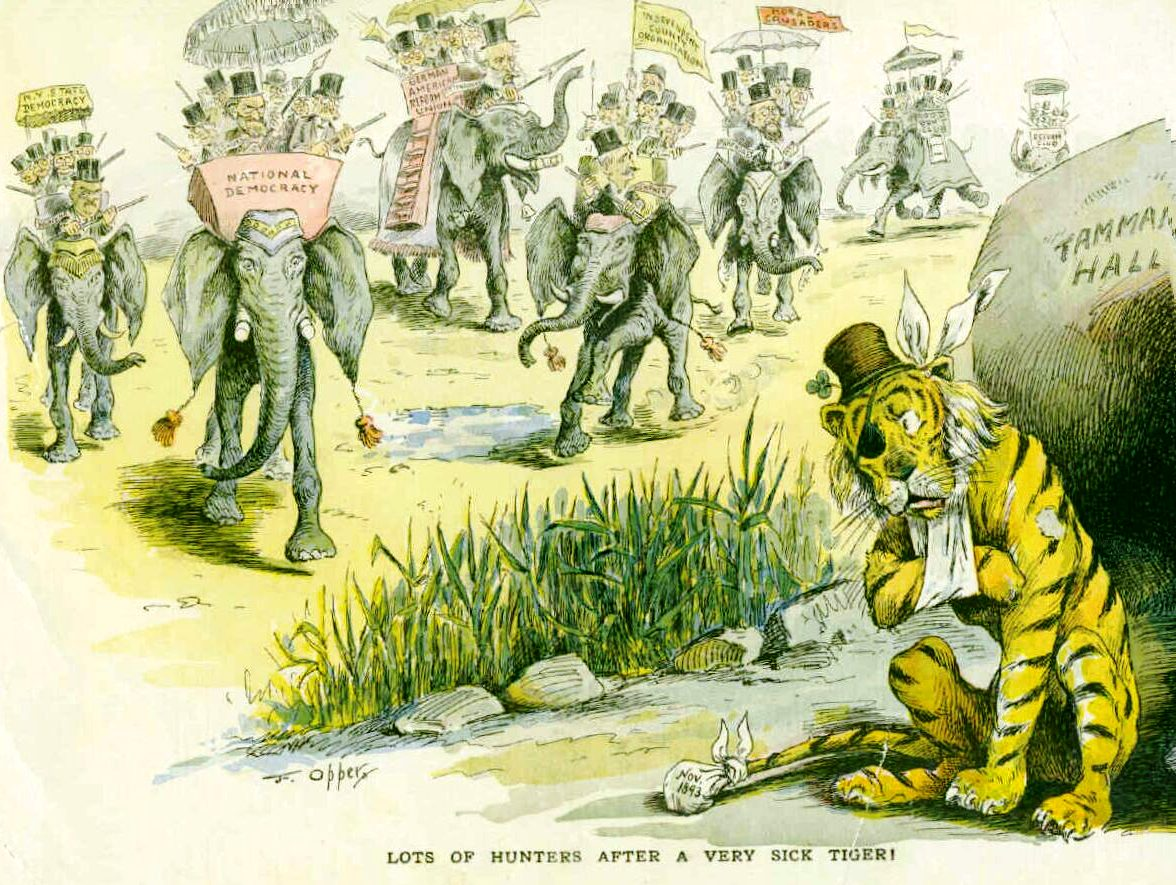 1893 US cartoon referencing Tammany Hall, caricatured as a Tiger. Published in "Puck"; cartoon by Frederick Burr Opper. Caption: "Lots of hunters after a very sick tiger"